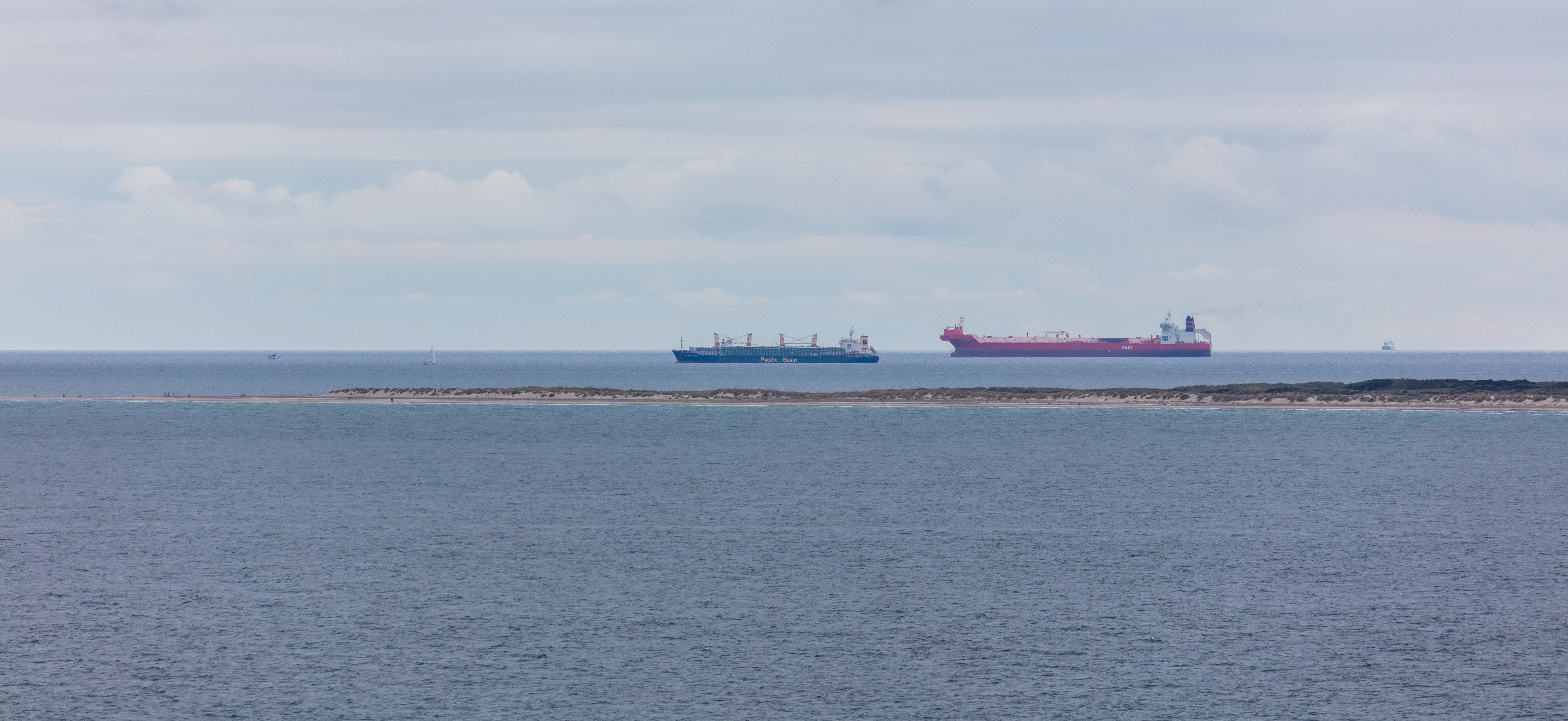 Grenen, Skagen, Denmark